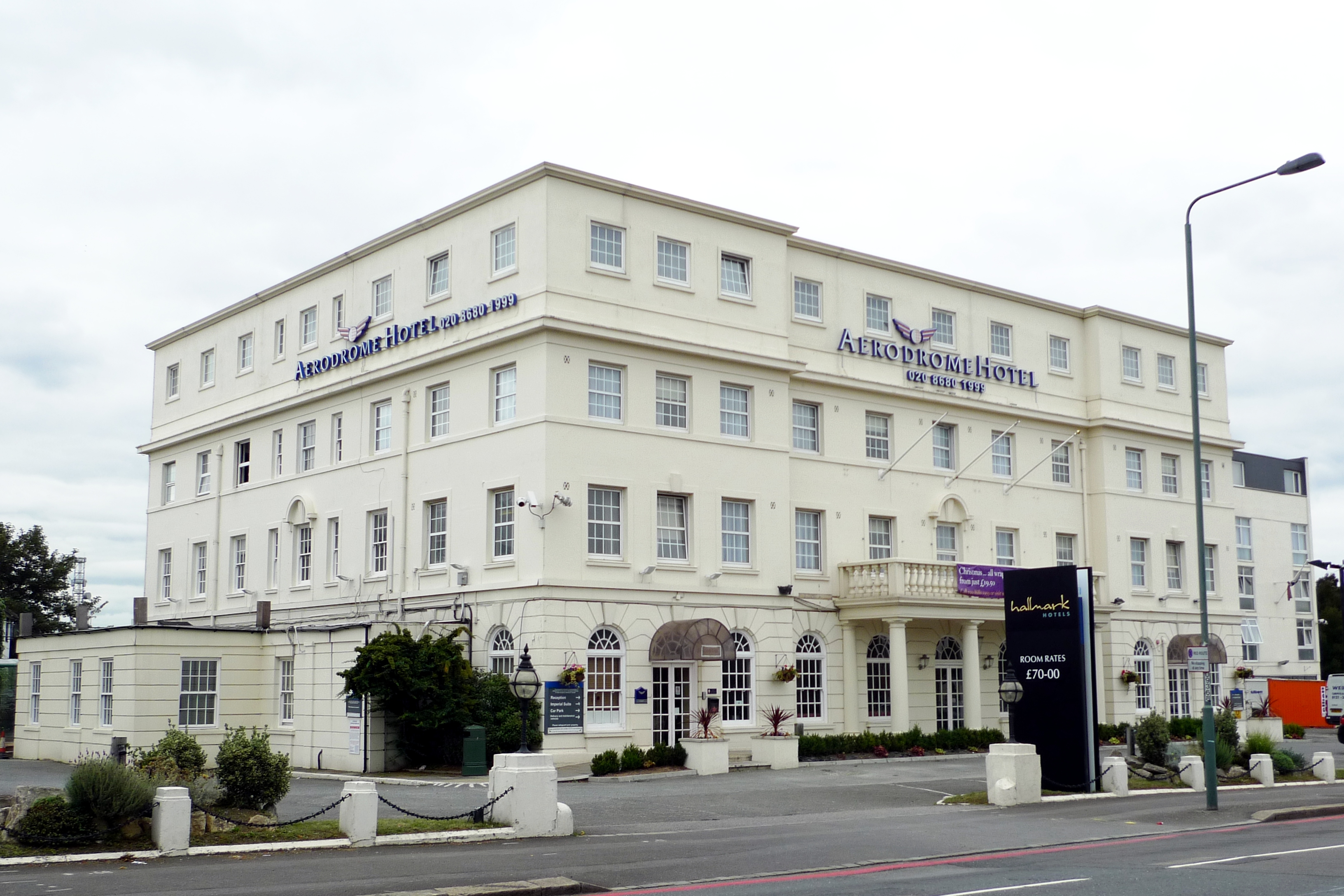 This large hotel used to serve Croydon Airport. It is also marked on old maps as a public house, though it's clearly mainly a hotel. Address: Purley Way. Owner: Hallmark Hotels (website).